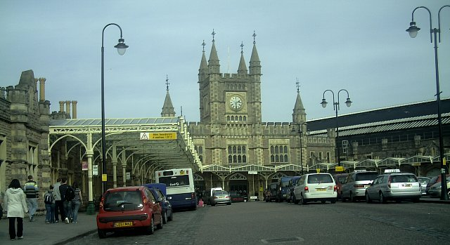 Railway Station in Bristol